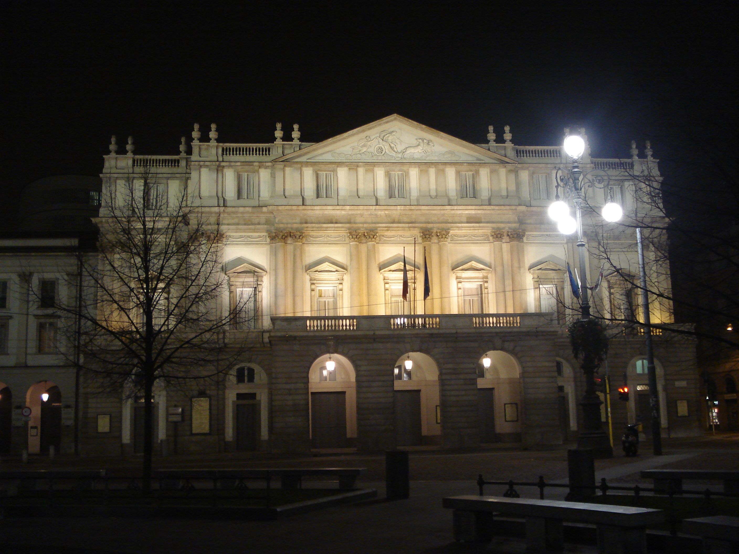 Milan, Italy: the "Teatro alla Scala" Opera house in "Piazza della Scala" square, by night. Picture by Giovanni Dall'Orto, December 30 2006.